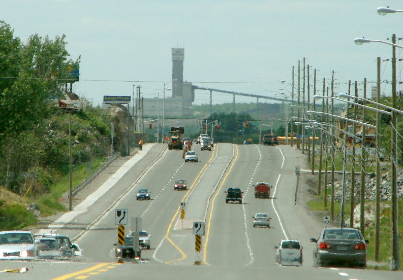 The Kingsway (Frood-Stobie Mine in the distant background), Sudbury, Ontario, Canada